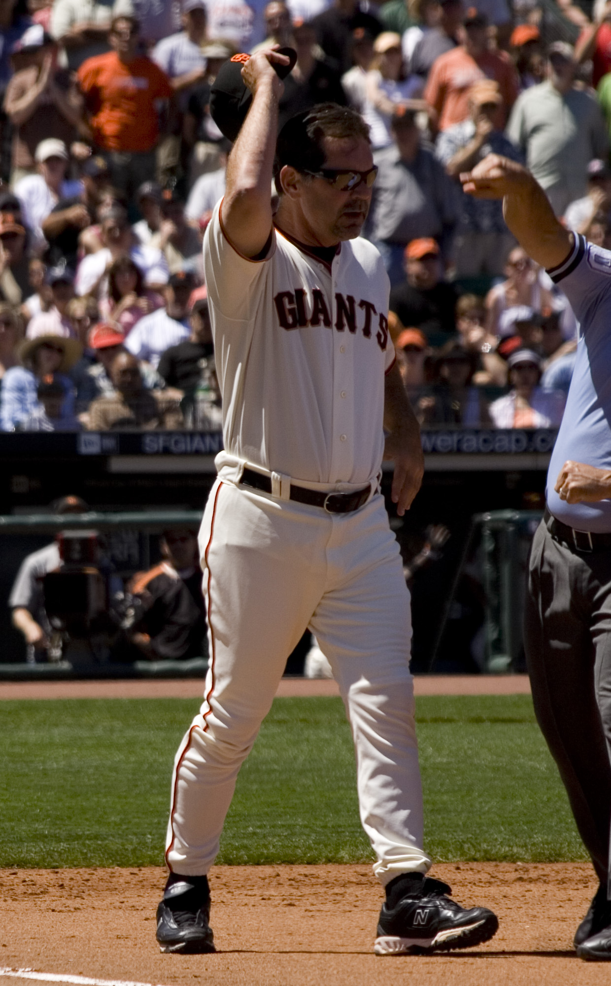 Bruce Bochy